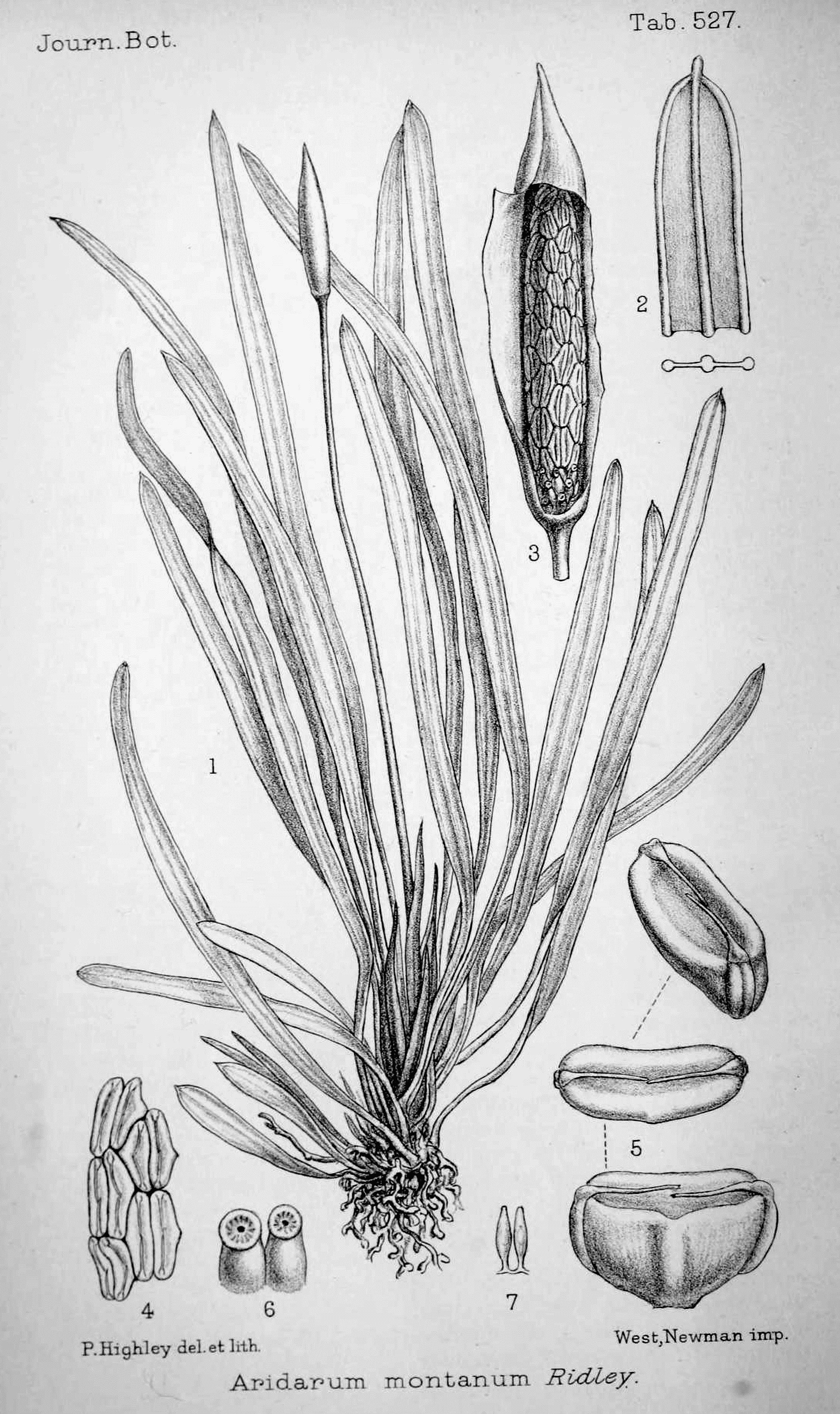 Aridarum montanum botanical drawing